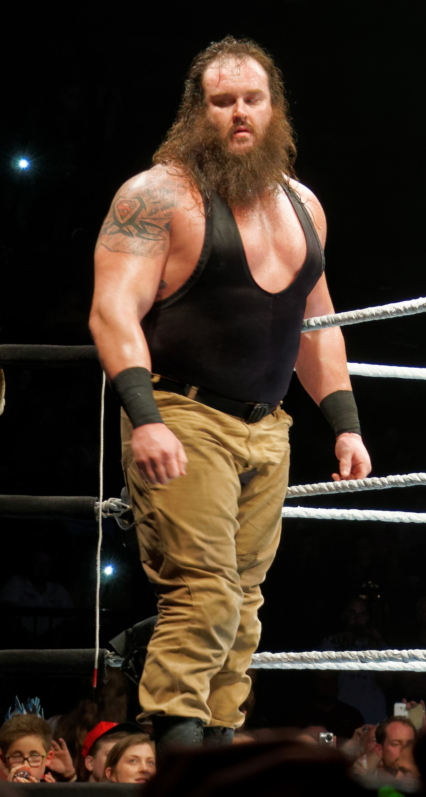 Braun Strowman in April 2016